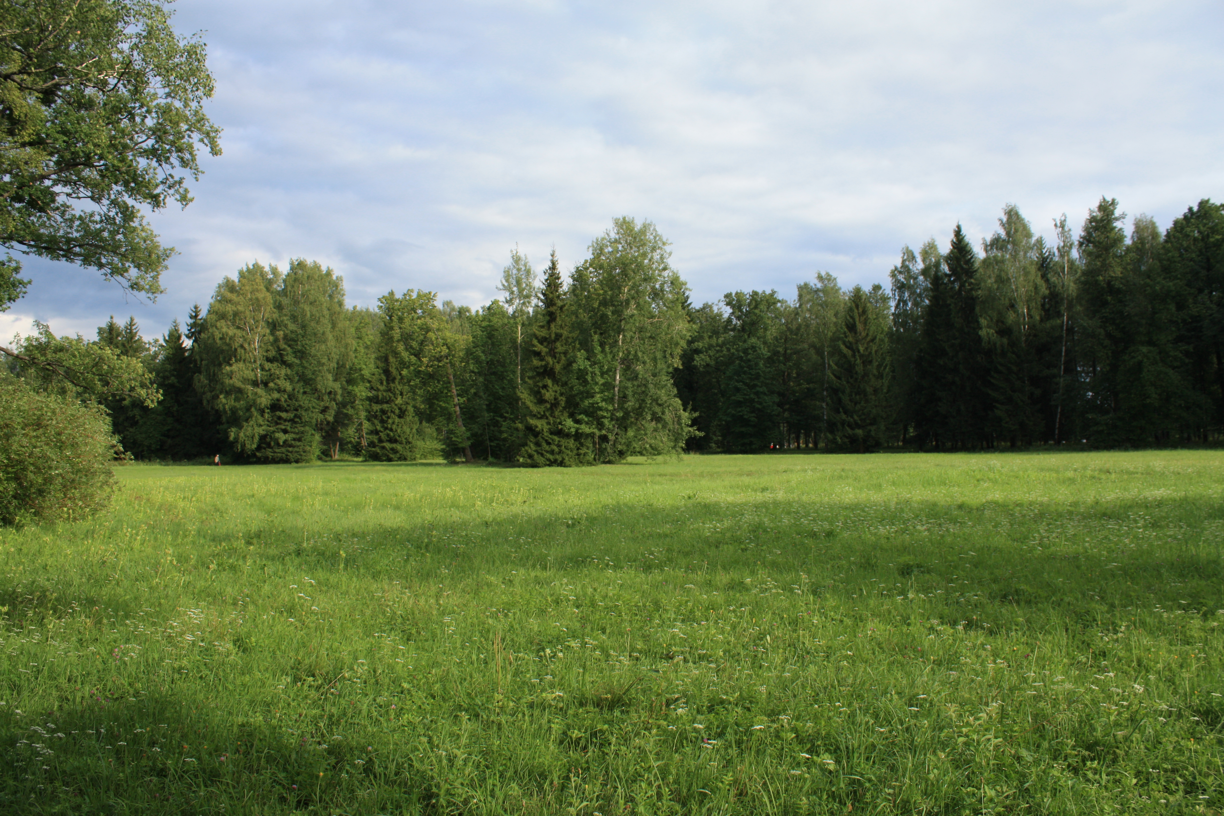 Landscape Leningrad region. Leningrad region is mostly covered by coniferous forests in the south of the area dominated by mixed forests.